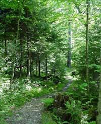 Image from within Gaudineer Scenic Area, a virgin red sprice forest area in the Monongahela National Forest.